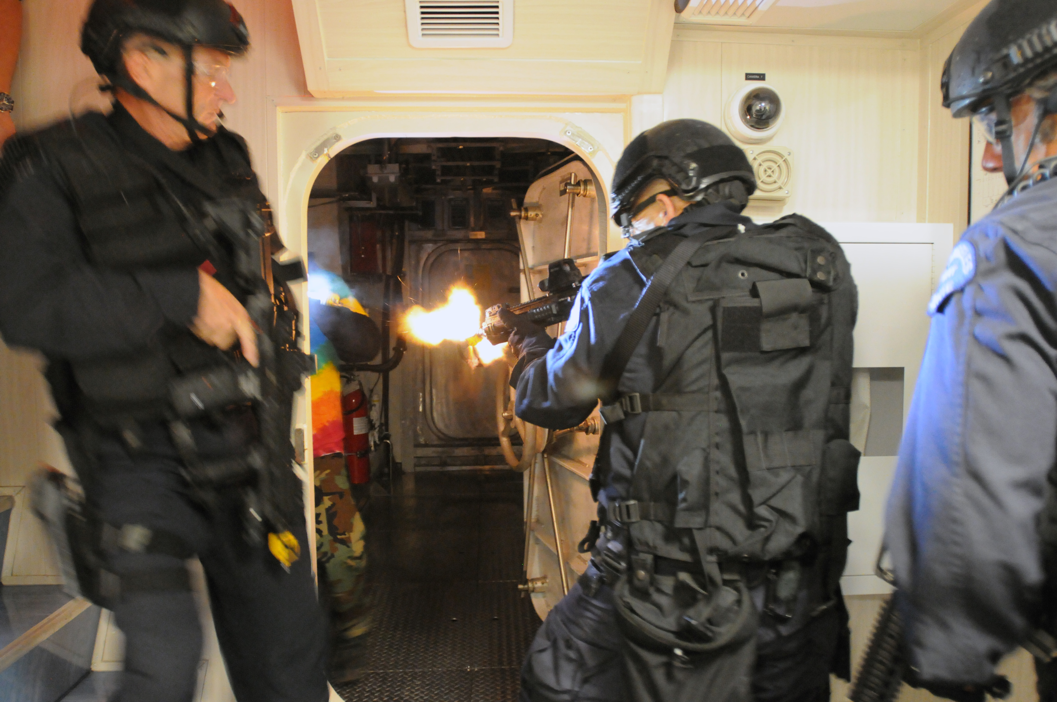 SAN DIEGO (May 22, 2012) Los Angeles Special Weapons and Tactics (SWAT) team members breach a room and engage hostile targets in a training exercise focusing on breach and clear tactics aboard maritime vessels. Naval Special Warfare Boat Team (SBT) 12 assisted in the operation by providing small boat insertion and extraction to and from the boarded vessel. (U.S. Navy photo by Mass Communication Specialist 3rd Class Kristopher Kirsop/Released) 120522-N-ZK869-143 Join the conversation navylive.dodlive.mil